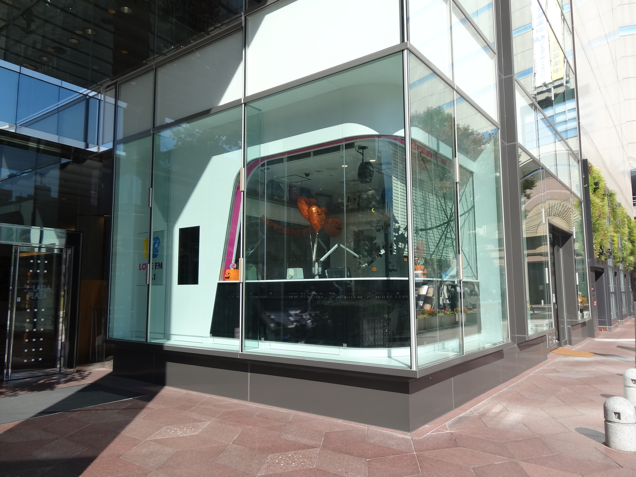 Love FM (JOFW-FM) Solaria Parkside Studio (Fukuoka, Japan) March 2011.